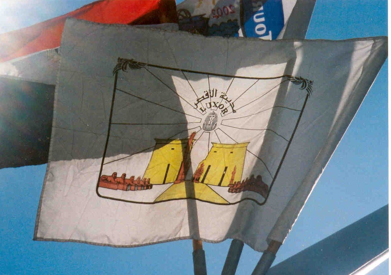 Flag of Luxor (Egypt), photo take on place by J. Ollé, 2003